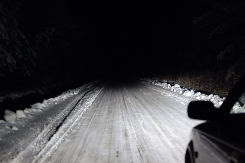 A Toyota Corolla in Finland 2005, dipped beam produced by H4 halogen bulbs. Same situation with full beams and full beam plus extra lights (driving lights).